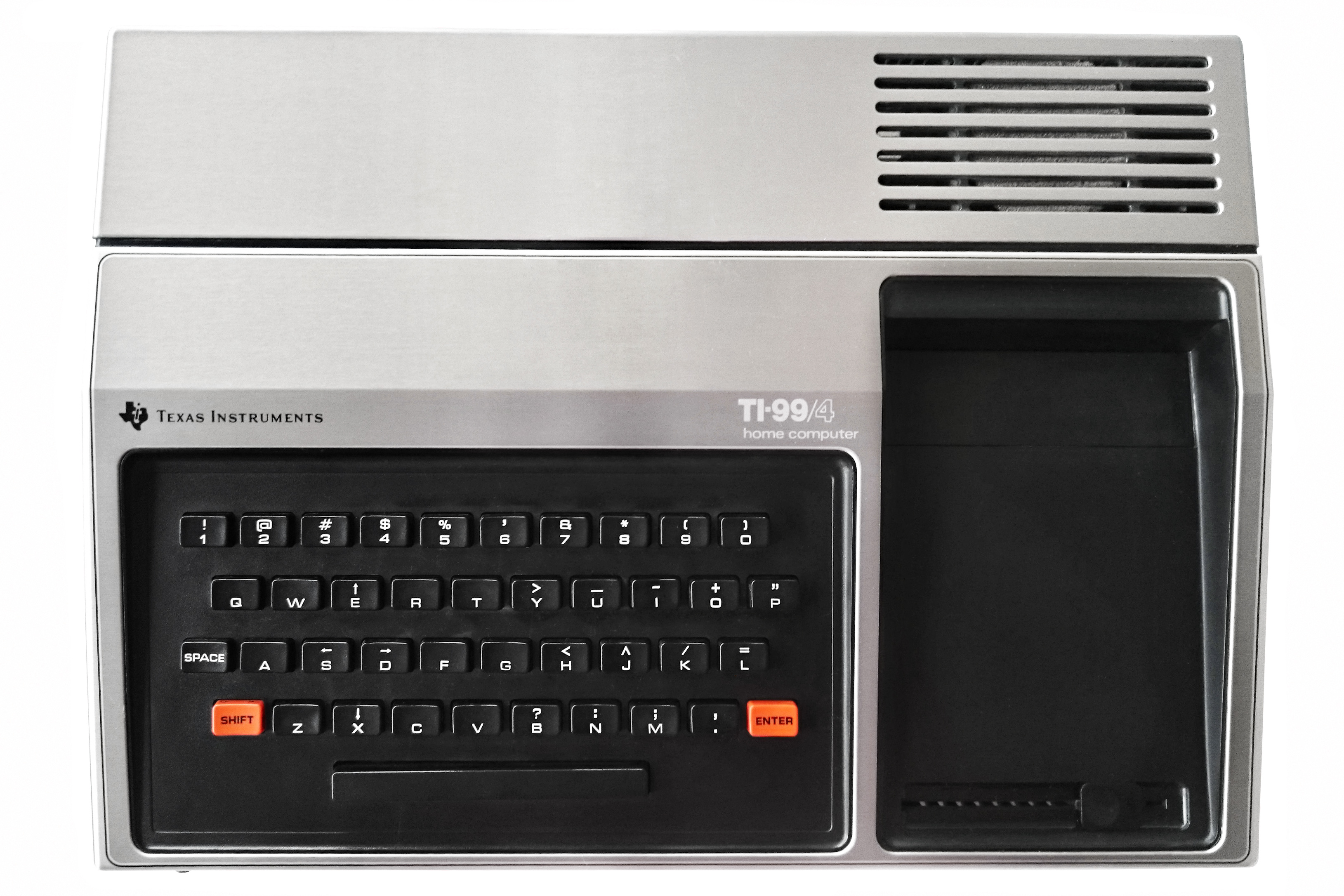 Photo of a Texas Instruments TI-99/4 (16 bit microcomputer from 1979)